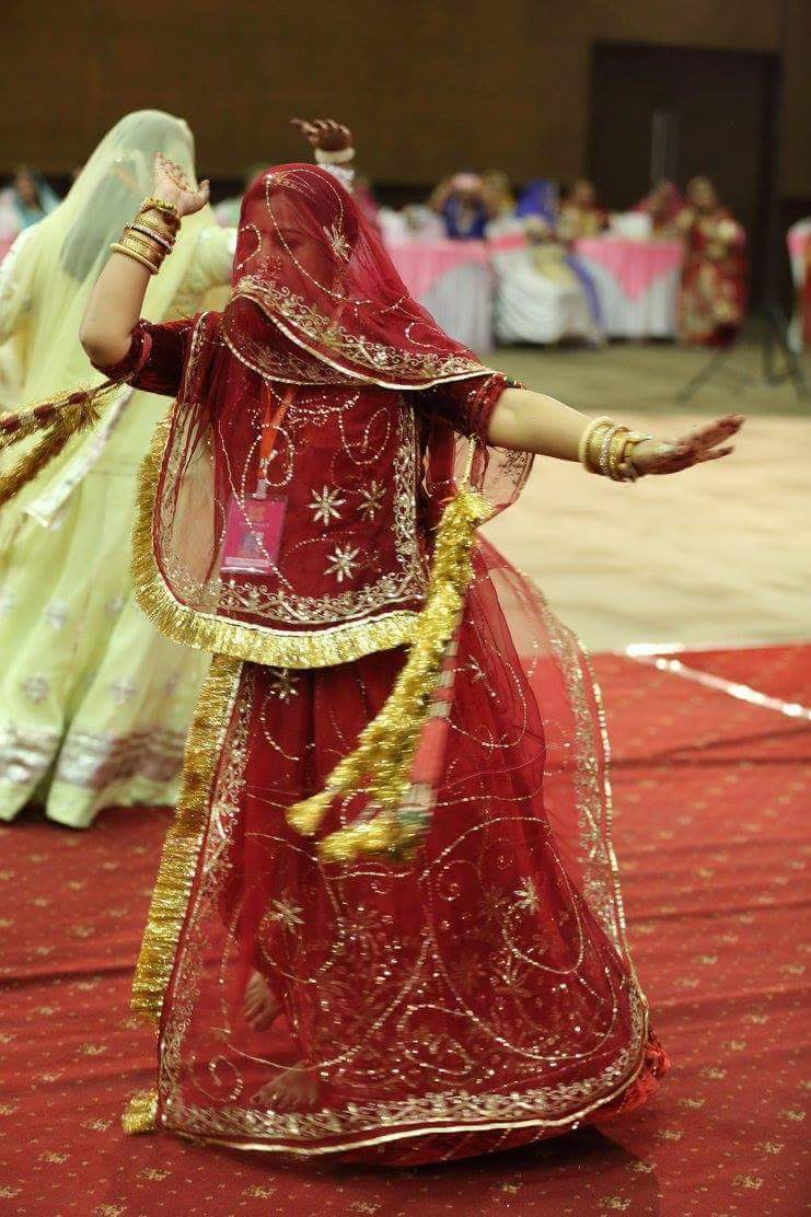 The image is of a Rajput woman performing Ghoomar dance at an cultural event.